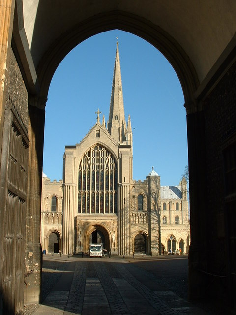 Norwich Cathedral Norwich Cathedral as seen through the main gates.